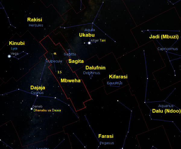 Constellation Vulpecula as seen from Tanzania, Swahili labelled Kiswahili: Kundinyota Mbweha (Vulpecula) jinsi inavyoonekana kutoka Tanzania, majina kwa Kiswahili